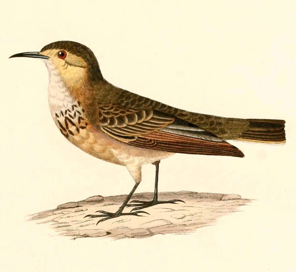 « Certhilauda cunicularia » = Geositta cunicularia cunicularia (Subspecies of Common Miner)